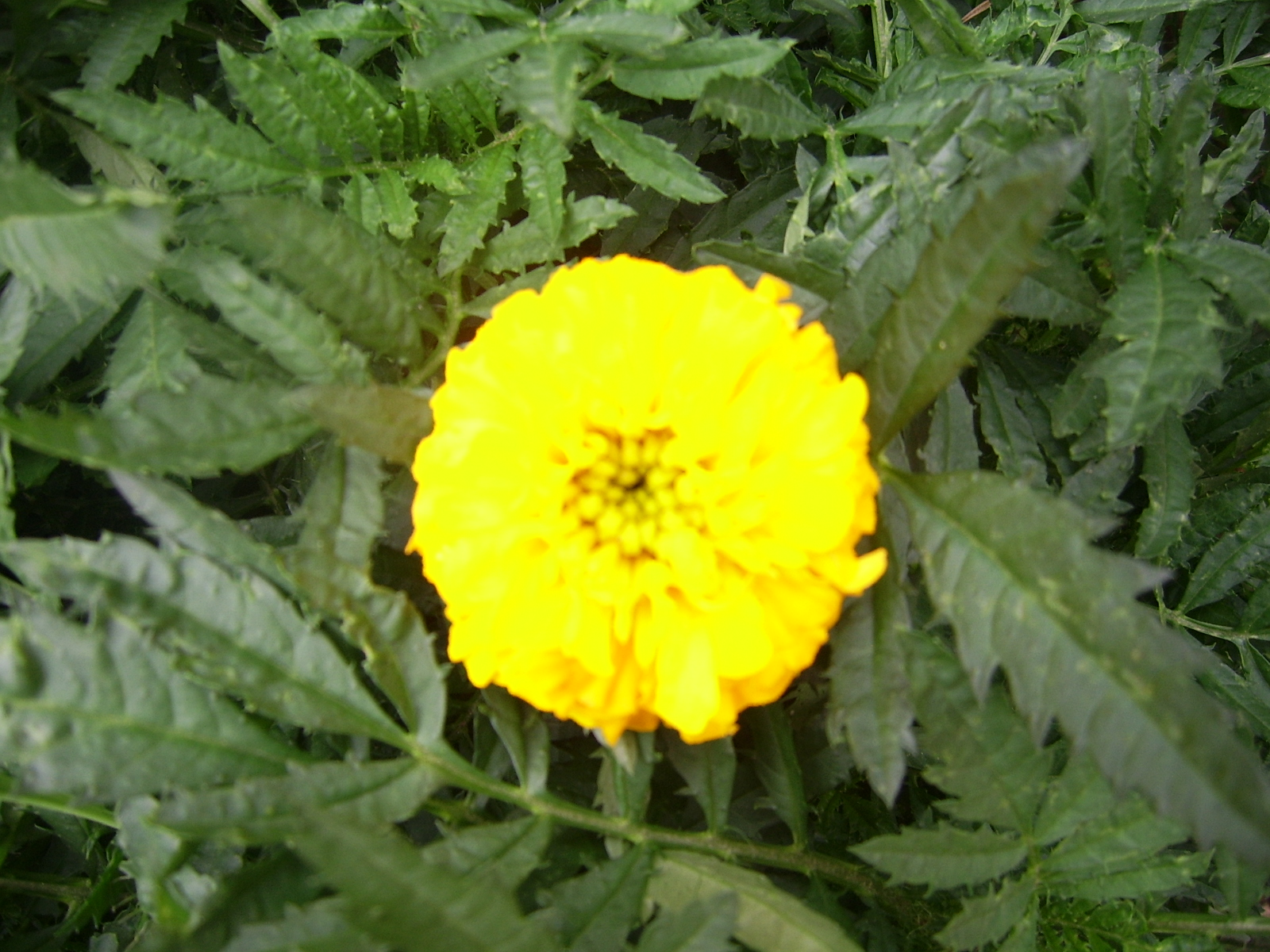 Tagetes